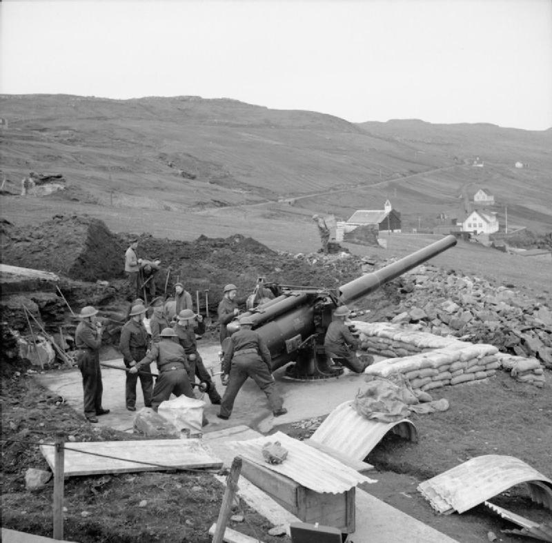 British 5.5-inch naval gun and crew at a coastal defence battery in the Faroe Islands.